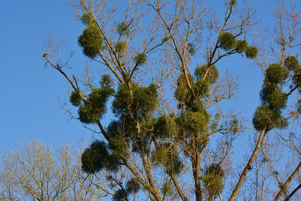 European Mistletoe (green bushes) growing on top of trees